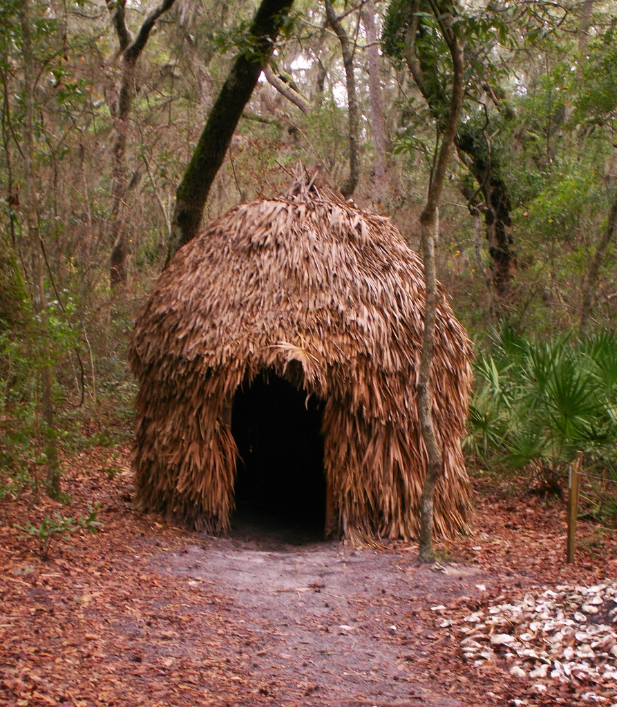 Reconstruction of a Timucuan chickee on display at Ft. Caroline National Monument in Jacksonville, Florida